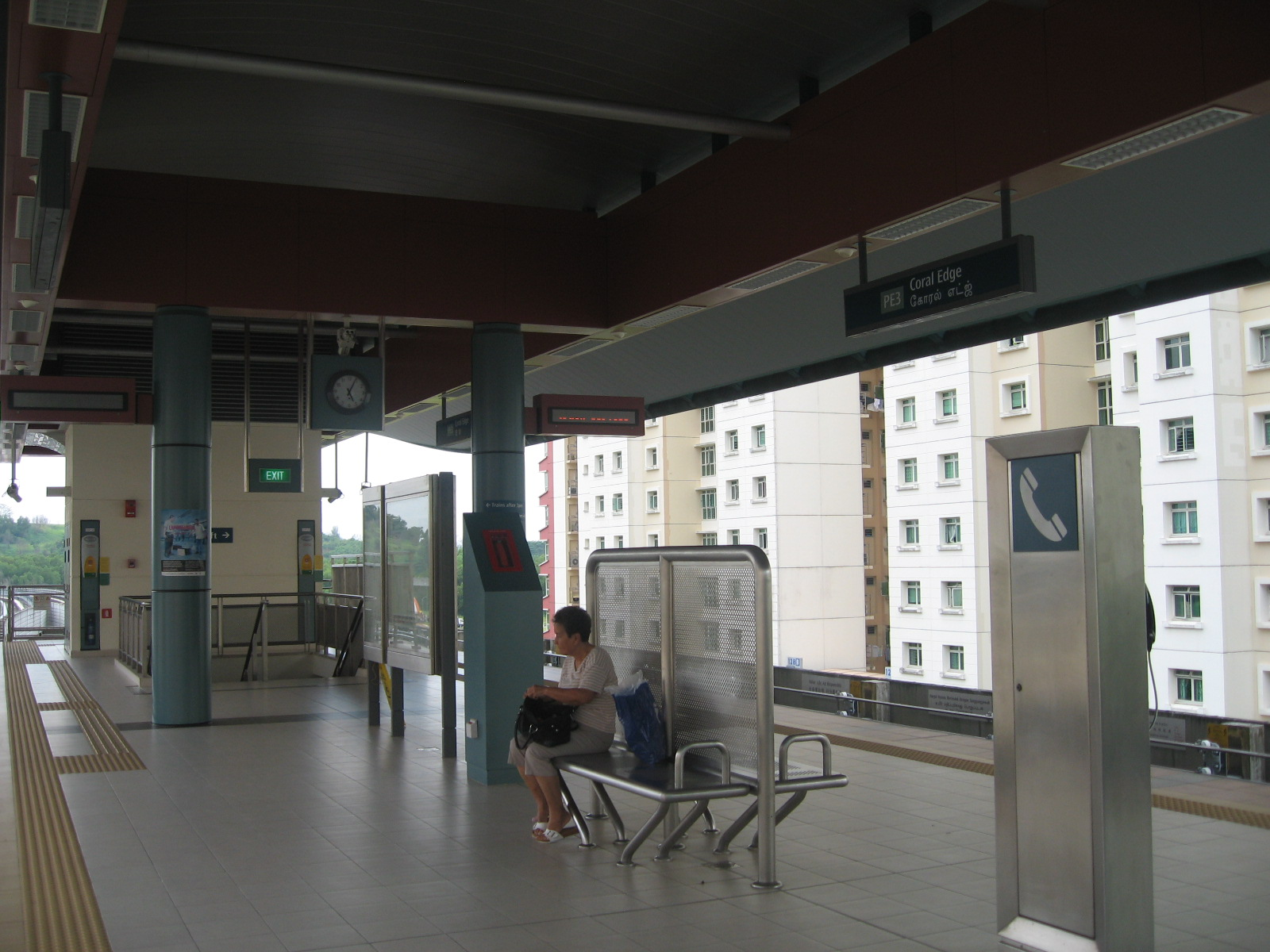 Coral Edge LRT Station.